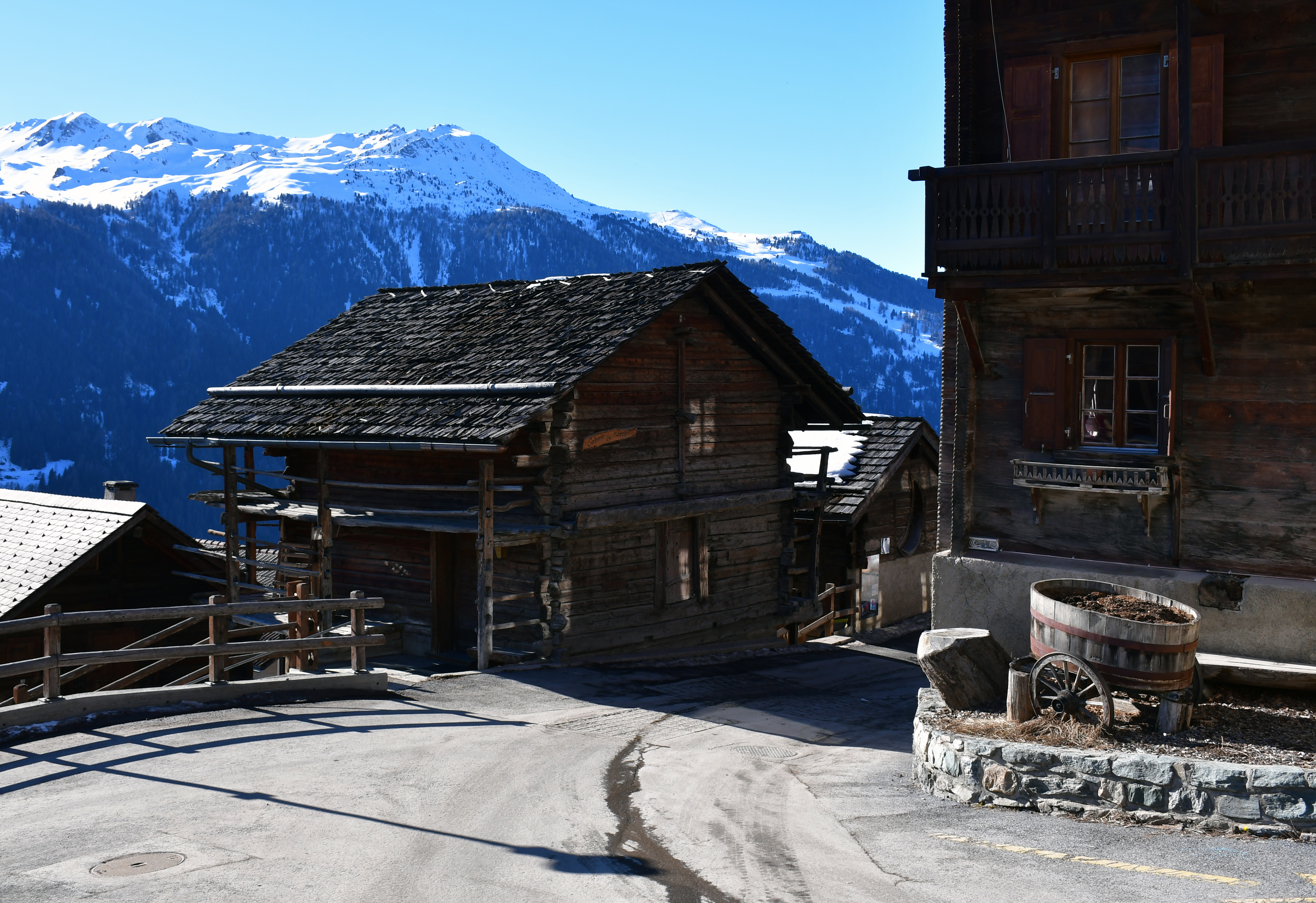 Chalet in Saint-Luc (municipality of Anniviers, canton of Valais, Switzerland).